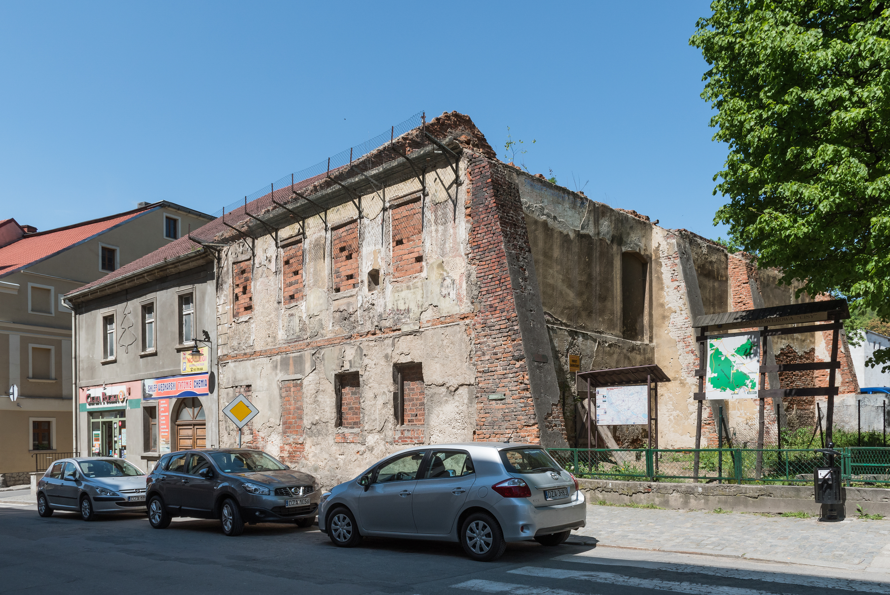 27 Główna Street in Bardo